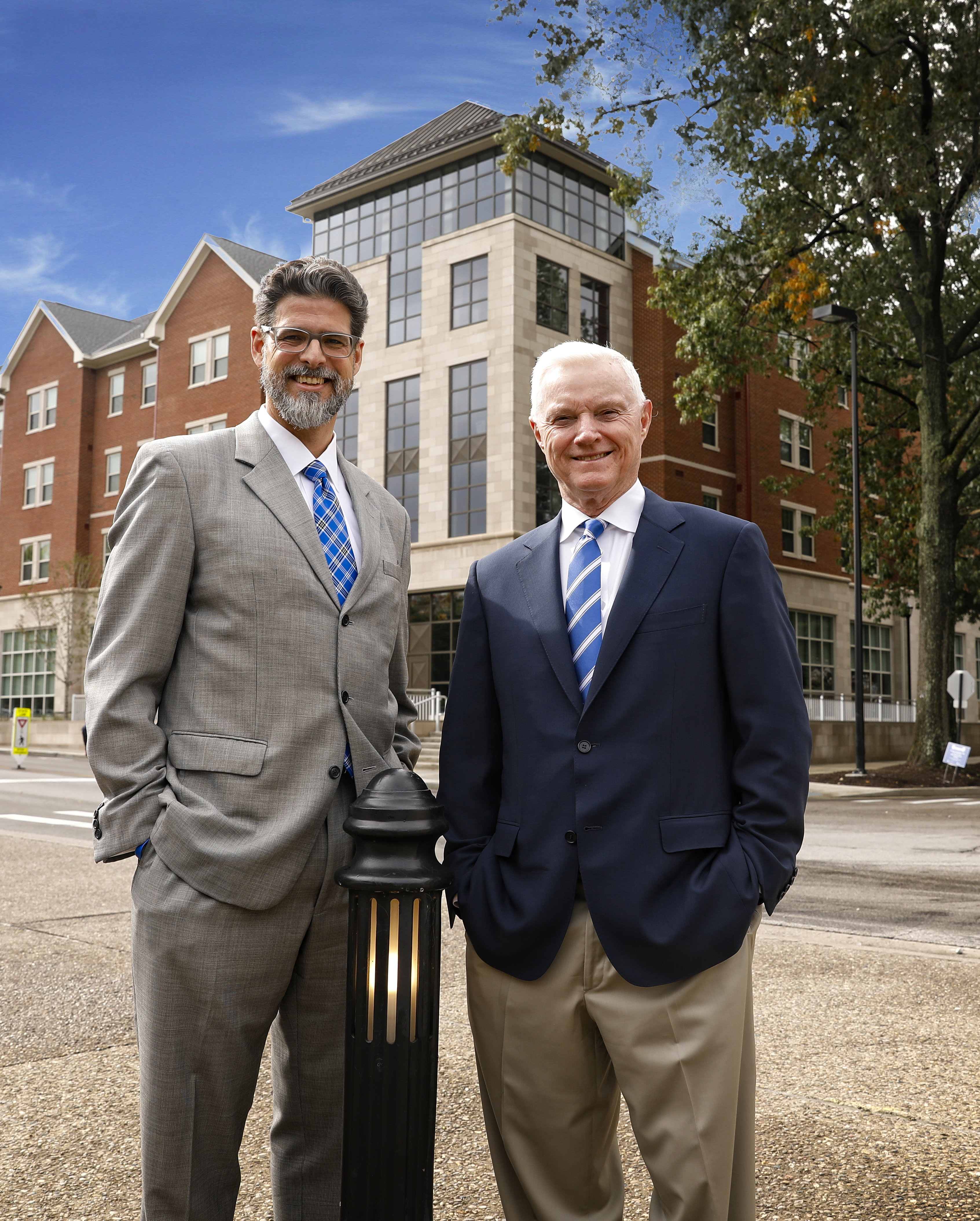 Christian M. M. Brady, founding TW Lewis Dean, with Tom Lewis at the dedication of the Lewis Honors College, the University of Kentucky 2017.